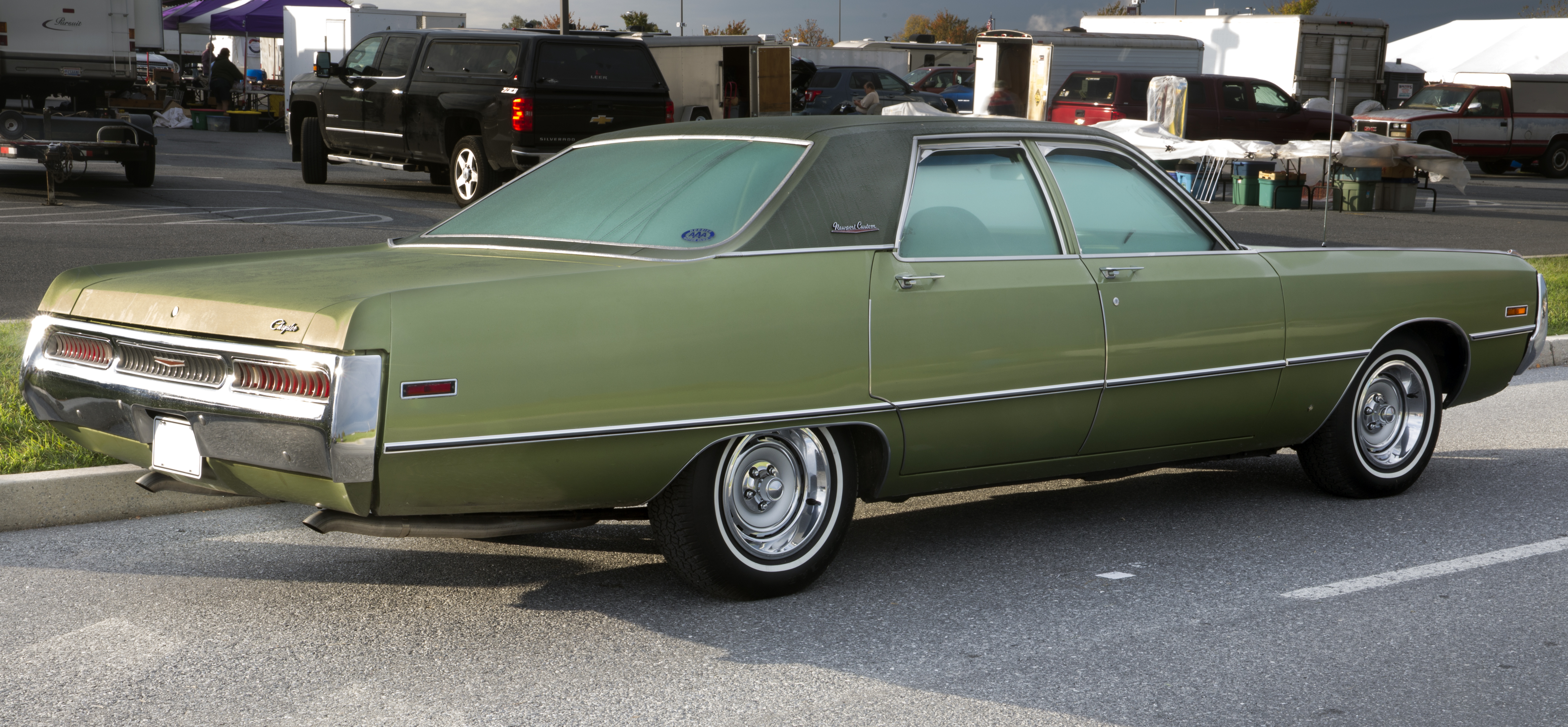 A 1971 Chrysler Newport Custom 4dr Sport Sedan in Sherwood Green offered for sale at Hershey 2019. 34K original miles, original paint. 383ci V8 with the twin exhaust, Torqueflite automatic, air conditioning.